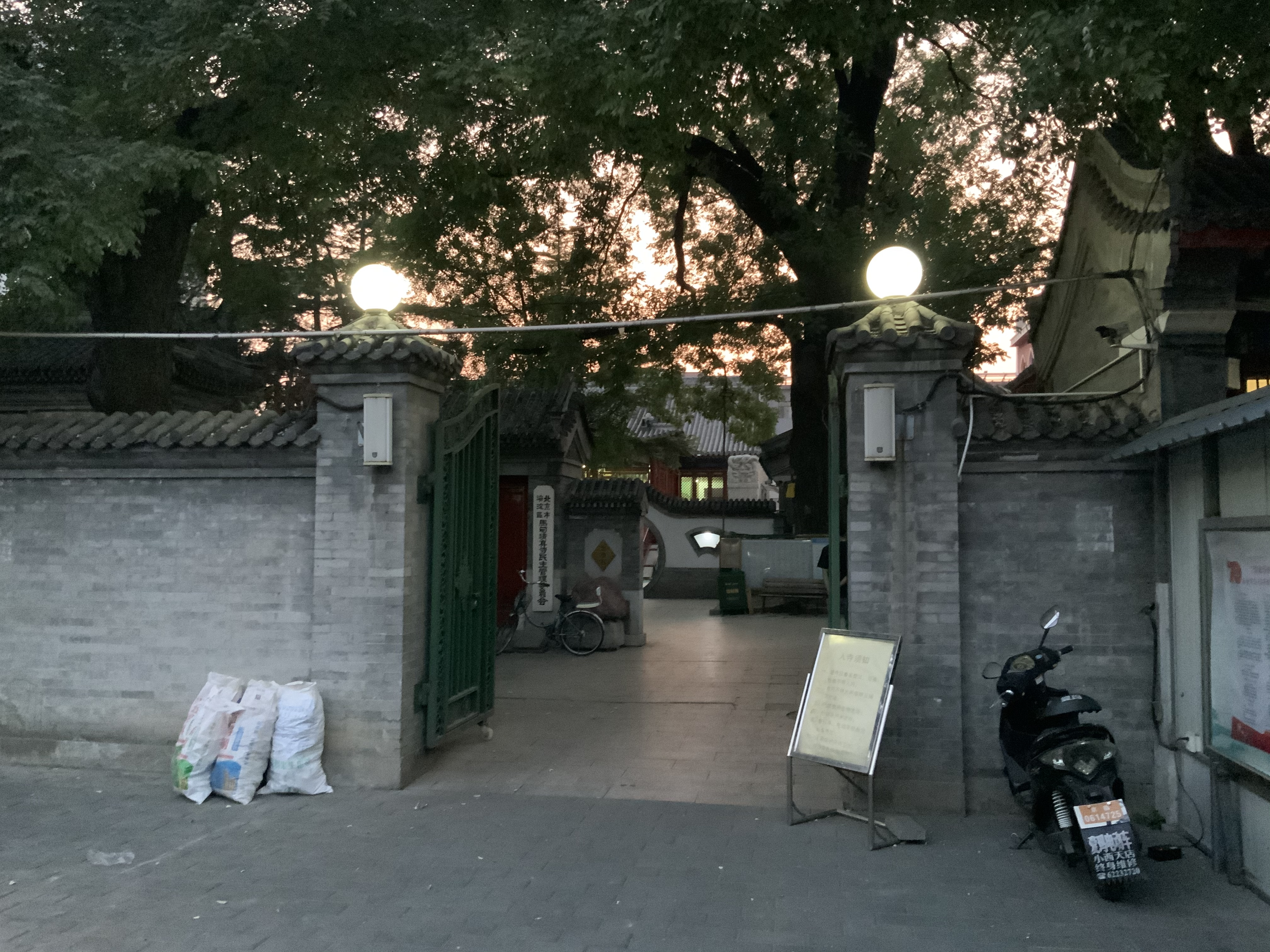 The gate of the Madian mosque. It’s an ancient settlement of Islam people in China 中文（中国大陆）: 马甸清真寺，伊斯兰回民在北京古老的聚居地之一